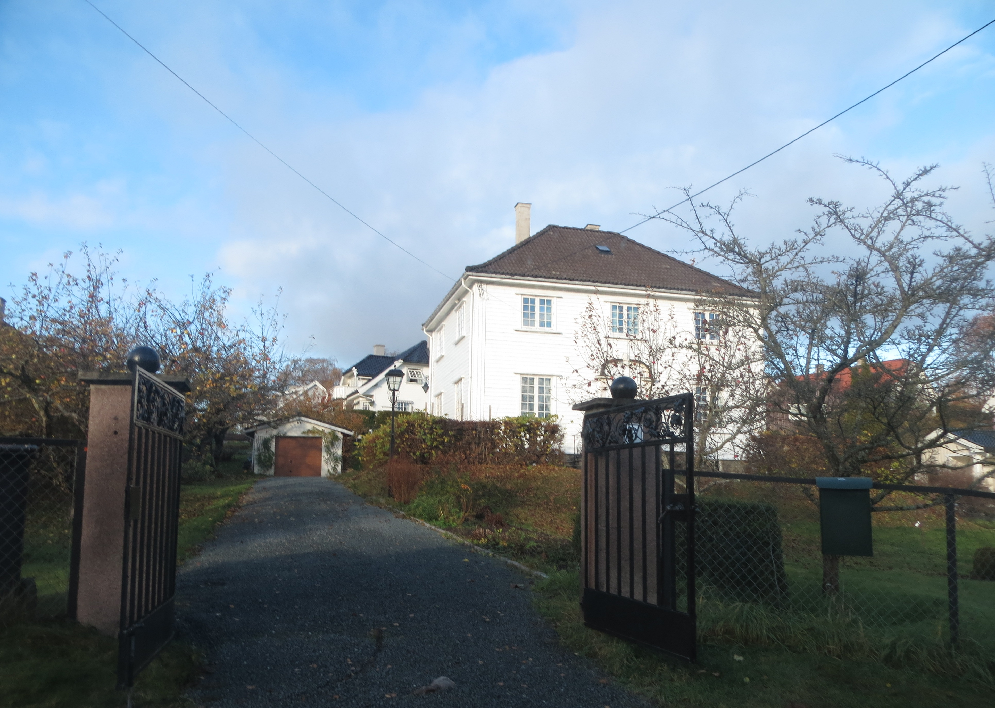 Image of villa in Smestad area, western Oslo, norway.